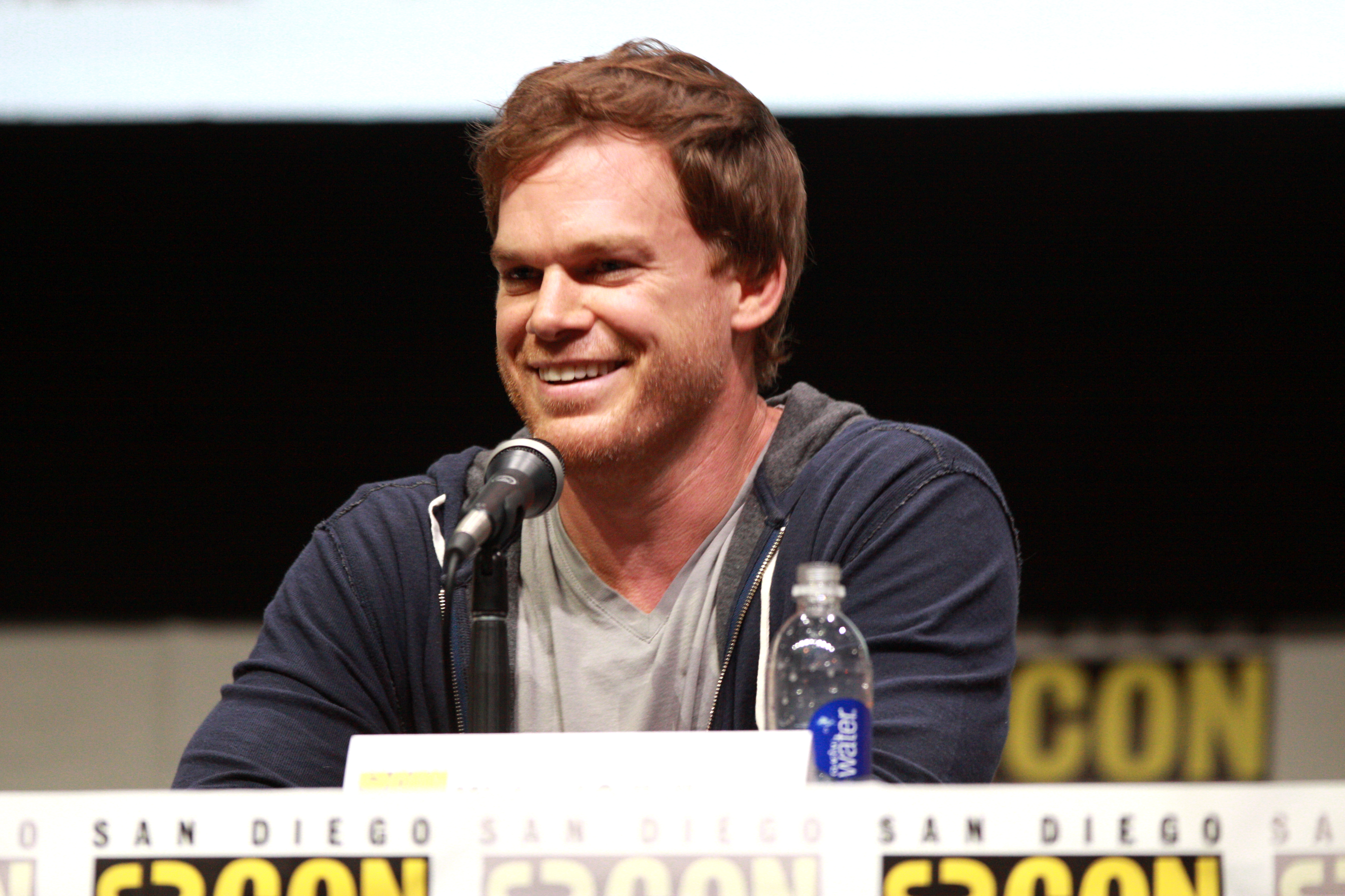 Michael C. Hall speaking at the 2013 San Diego Comic Con International, for "Dexter", at the San Diego Convention Center in San Diego, California.